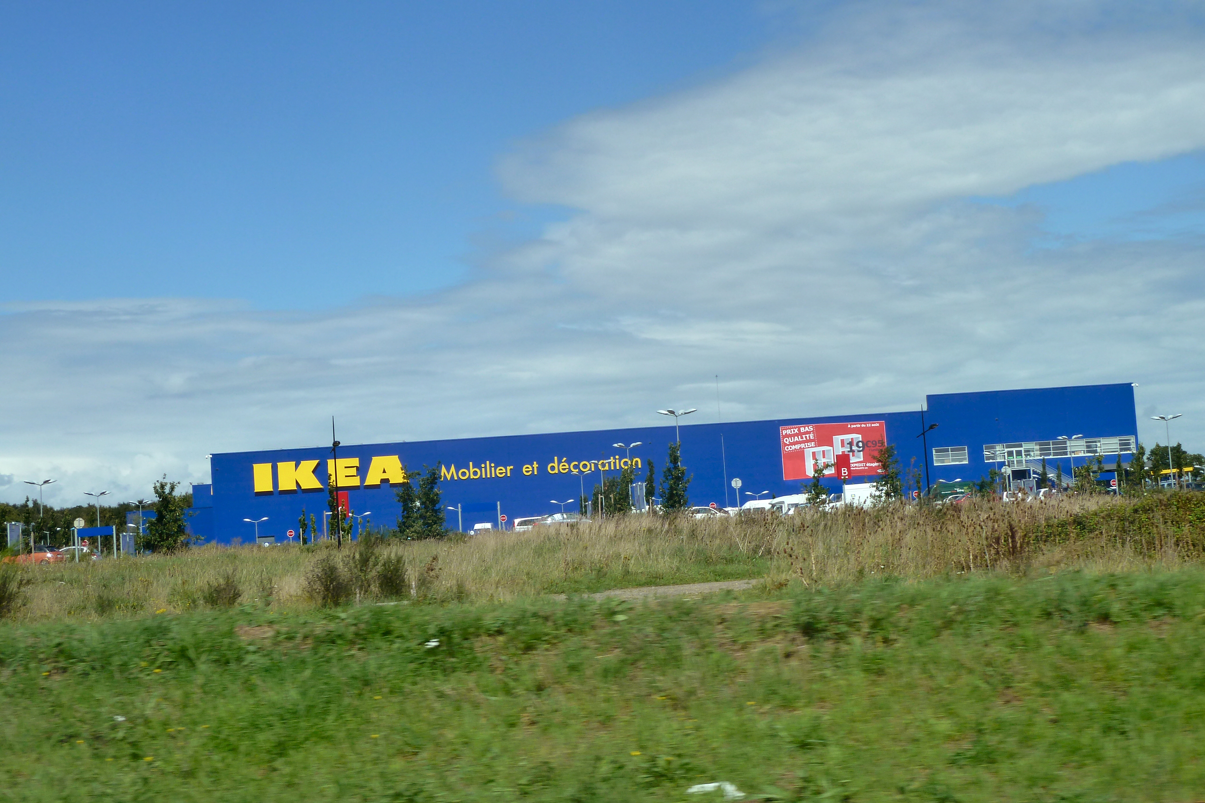 Ikea Store in Rennes